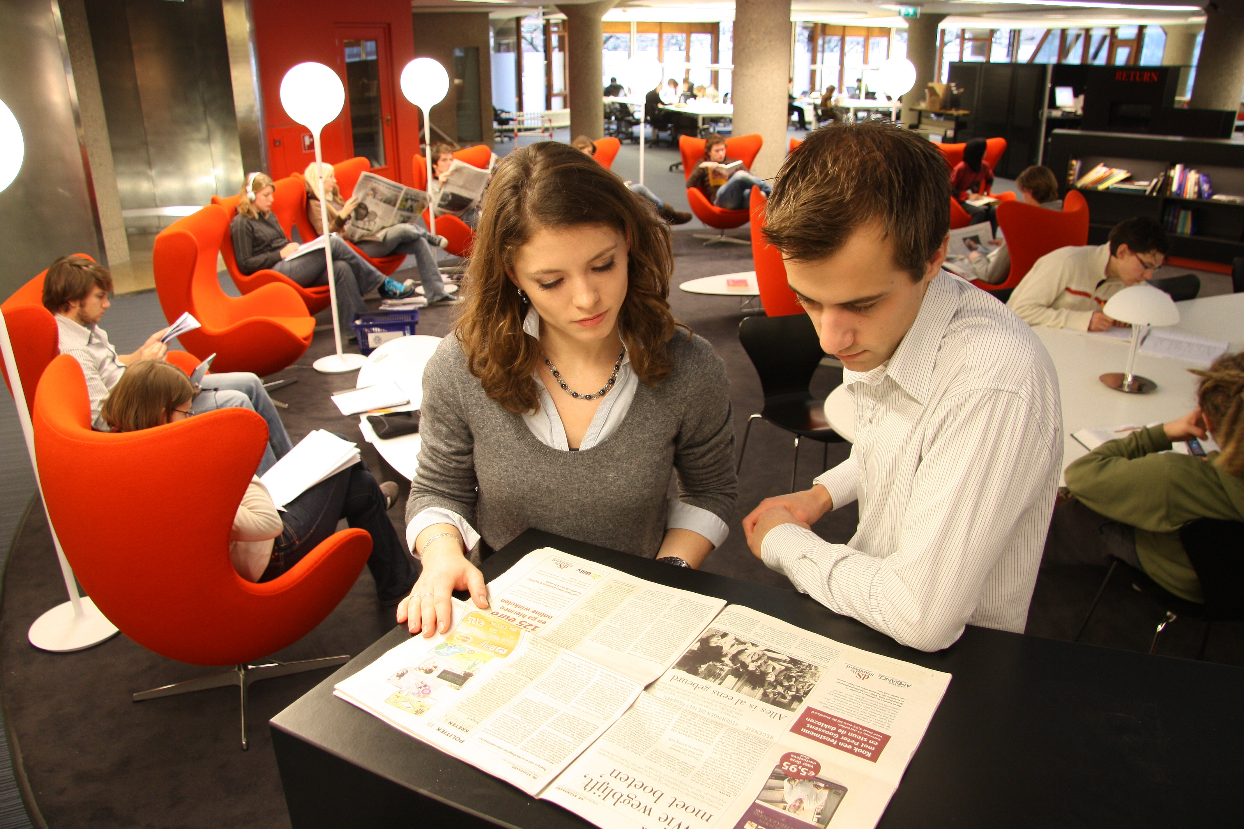 Leiden Univeristy Library, Information Centre Huygens